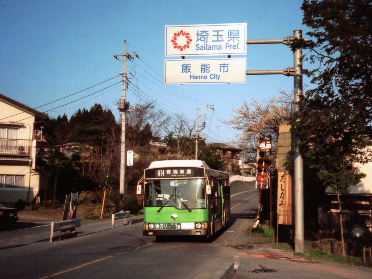 Tokyo Metropolitan Bureau of Transportation W-P832 Hino P-RJ172BA at Ome City